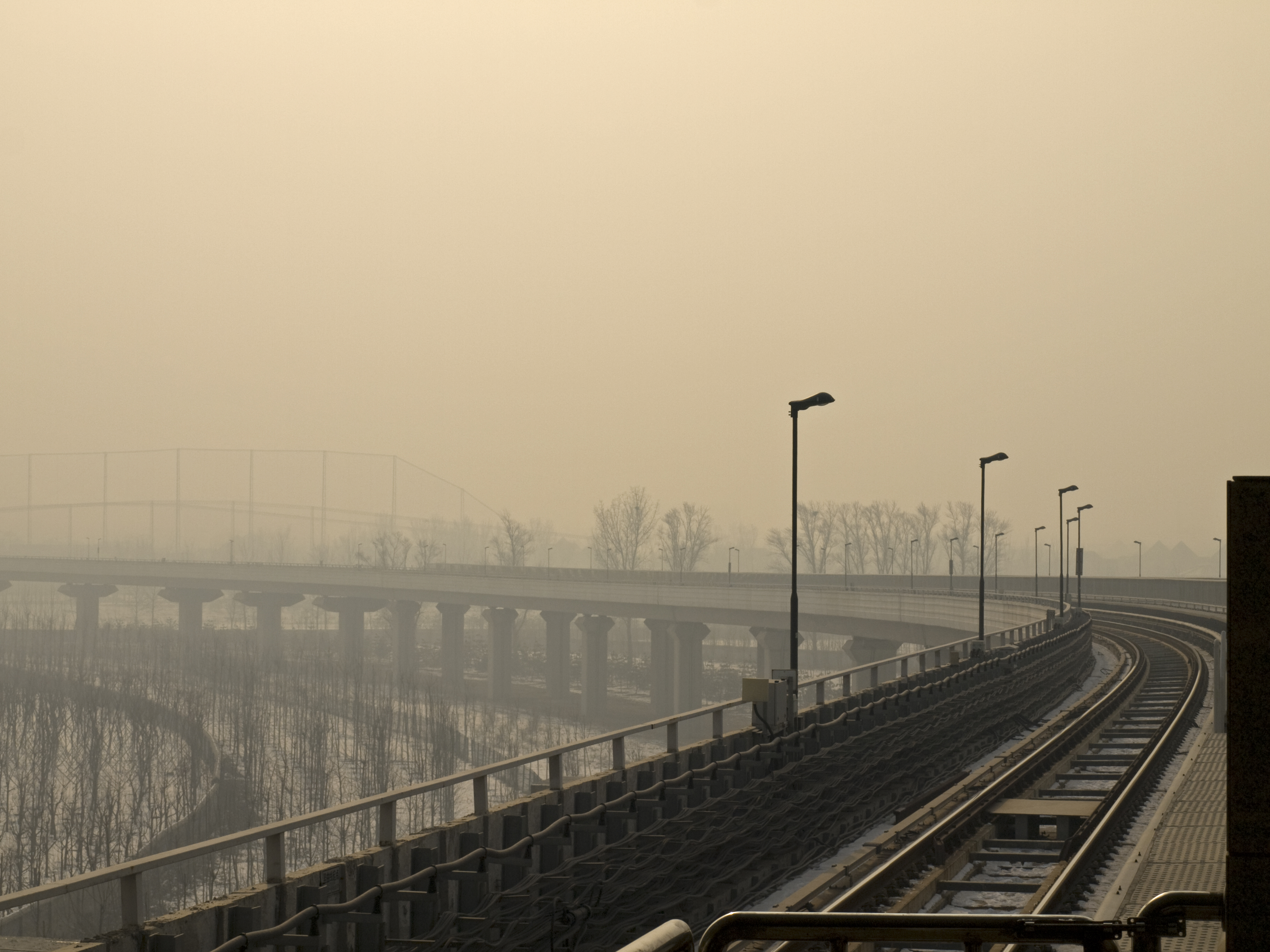 Changping line as seen south from Gonghuacheng station, Beijing Subway